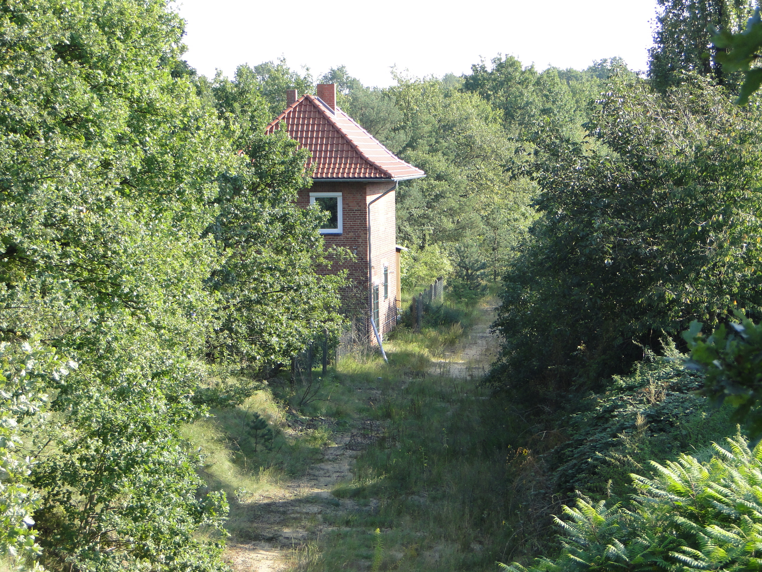 Former railway line Ludwigslust Dömitz from bridge on Eichkoppelweg in Ludwigslust, district Ludwigslust-Parchim, Mecklenburg-Vorpommern, Germany